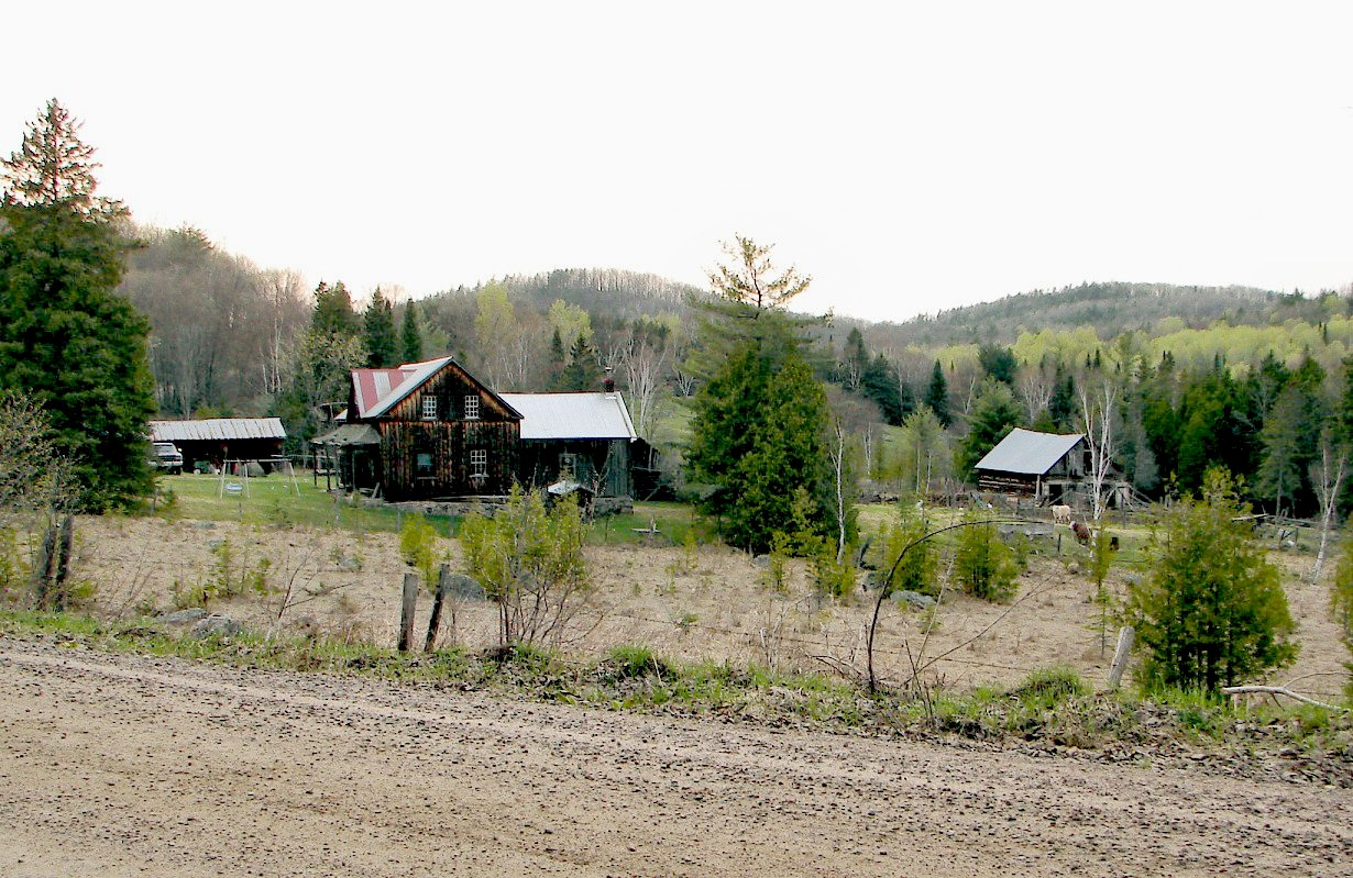 Old farm along the Opeongo Road, Renfrew County, Ontario, Canada